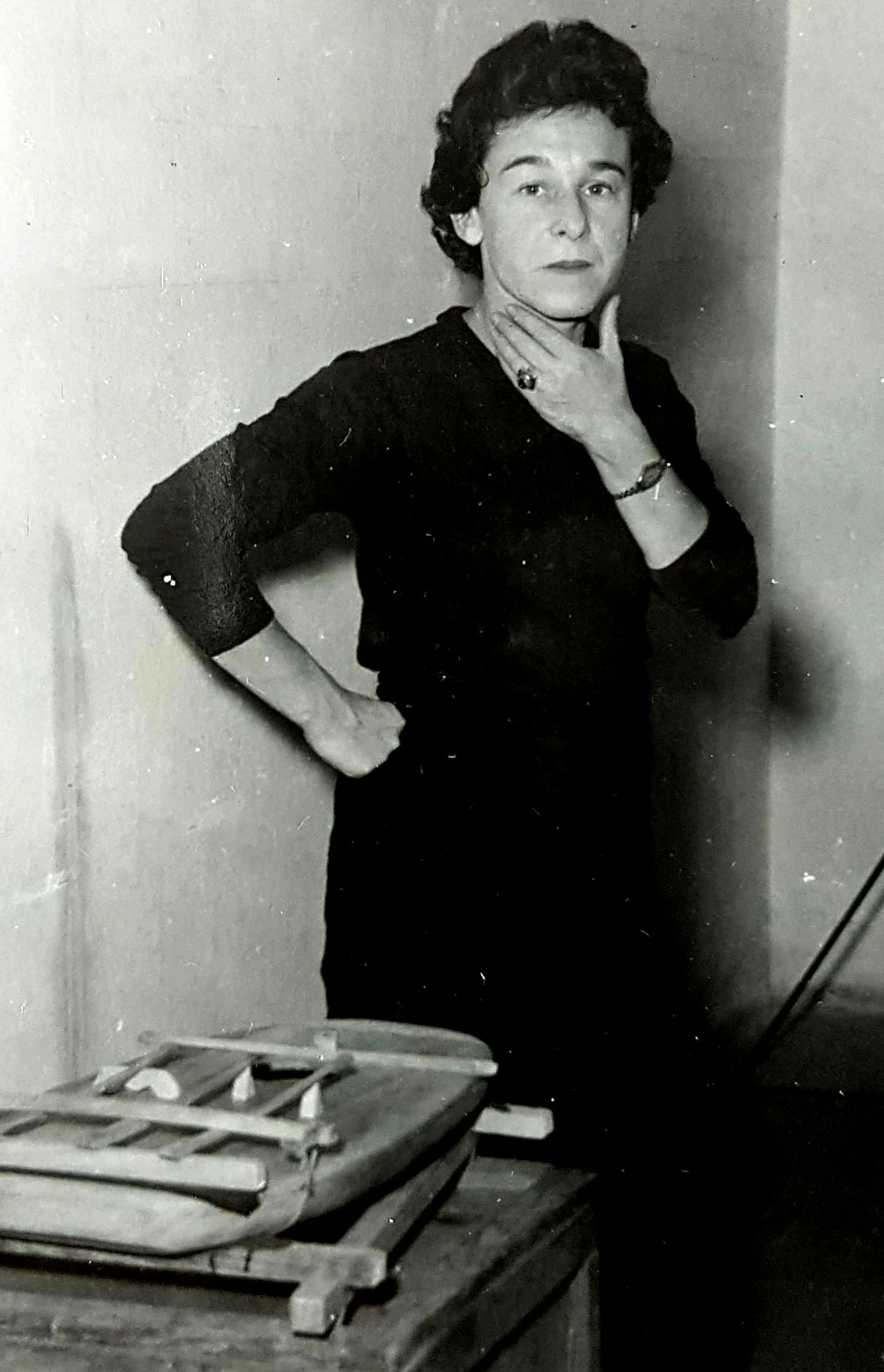 Israeli dancer Devorah Bertonov during a recording rehearsal (probably in 1951)